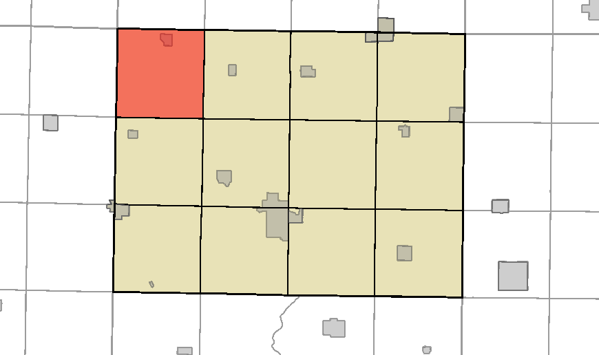 This is a map of Humboldt County, Iowa, USA which highlights the location of Wacousta Township.